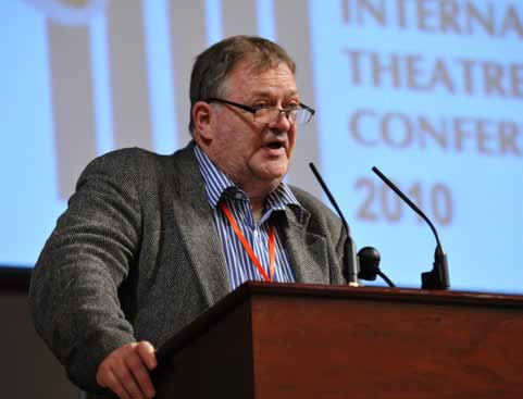 David Parry at TEAS